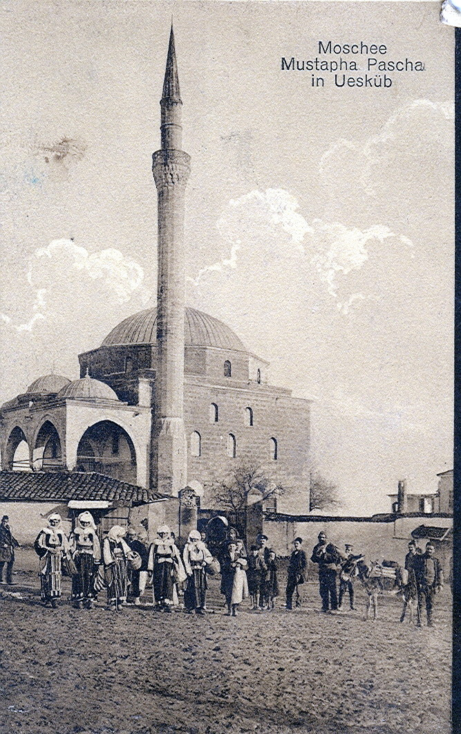 Postcard, dated 12.2.1917. Title: "Mustapha Pascha-mosque in Skopje"